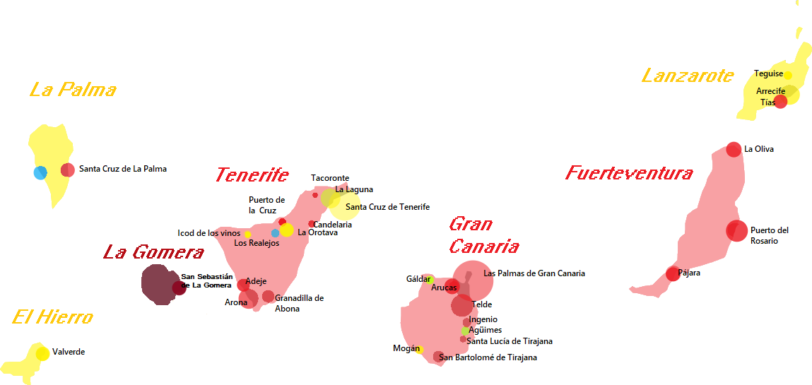 Resultados de las elecciones canarias 2019 por islas y municipios de más de 20 000 habitantes.